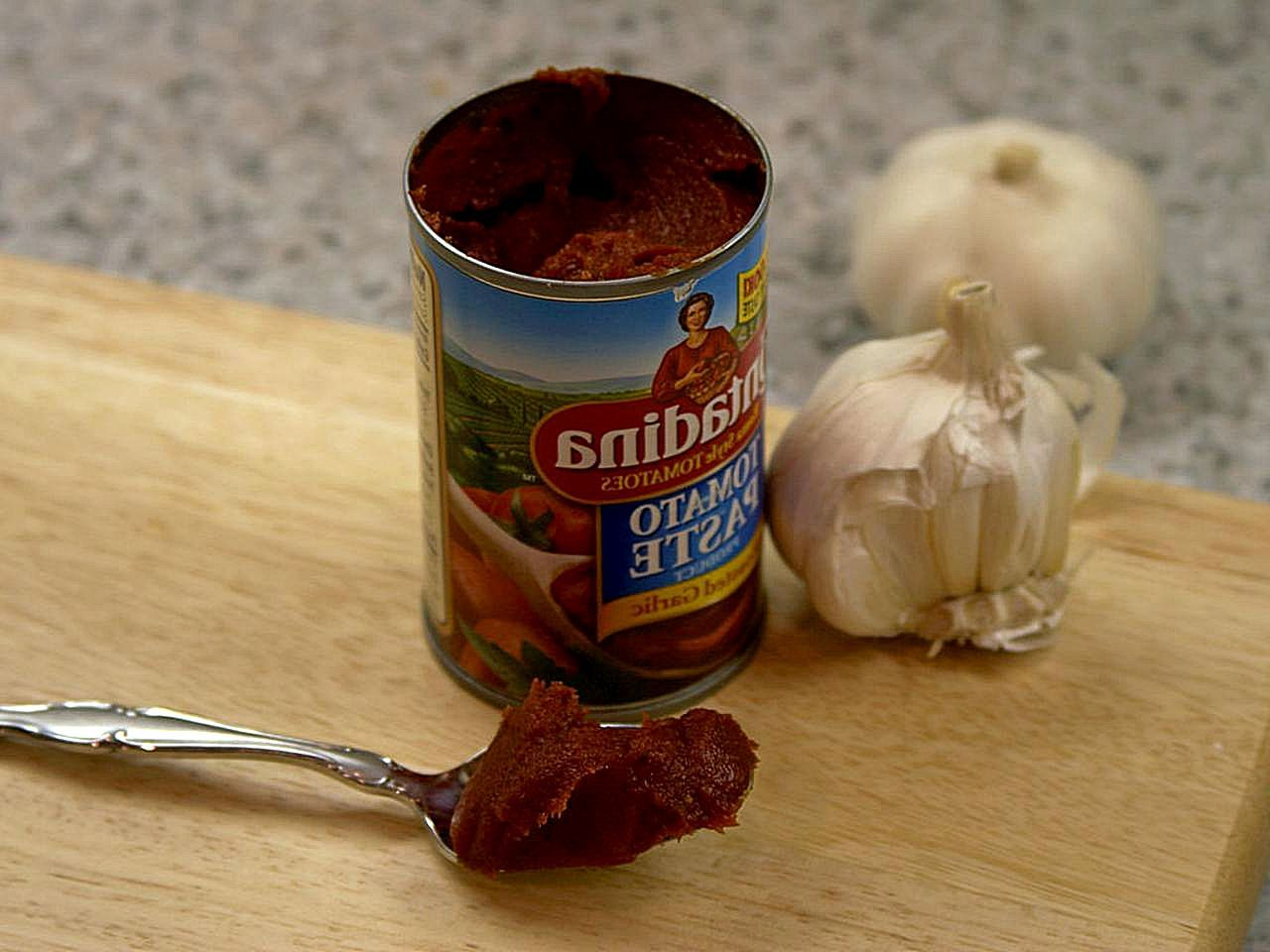 Image title: Tomatos paste cans Image from Public domain images website